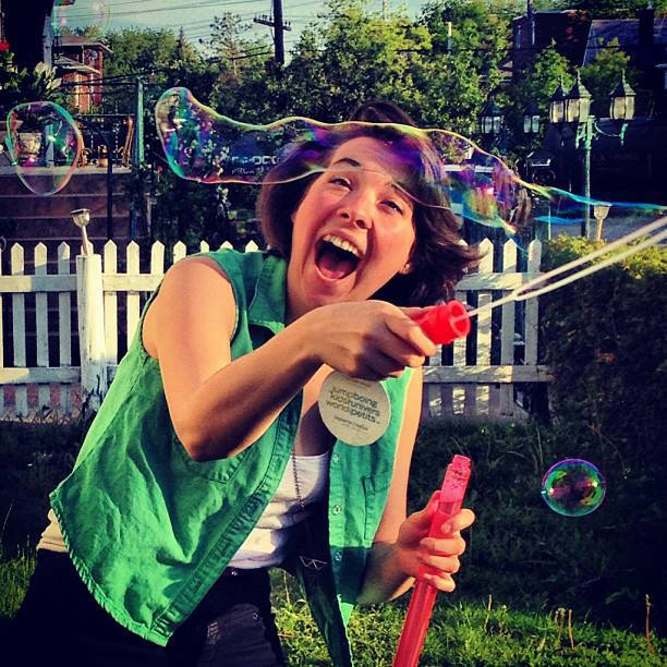 Girl having fun with big bubbles